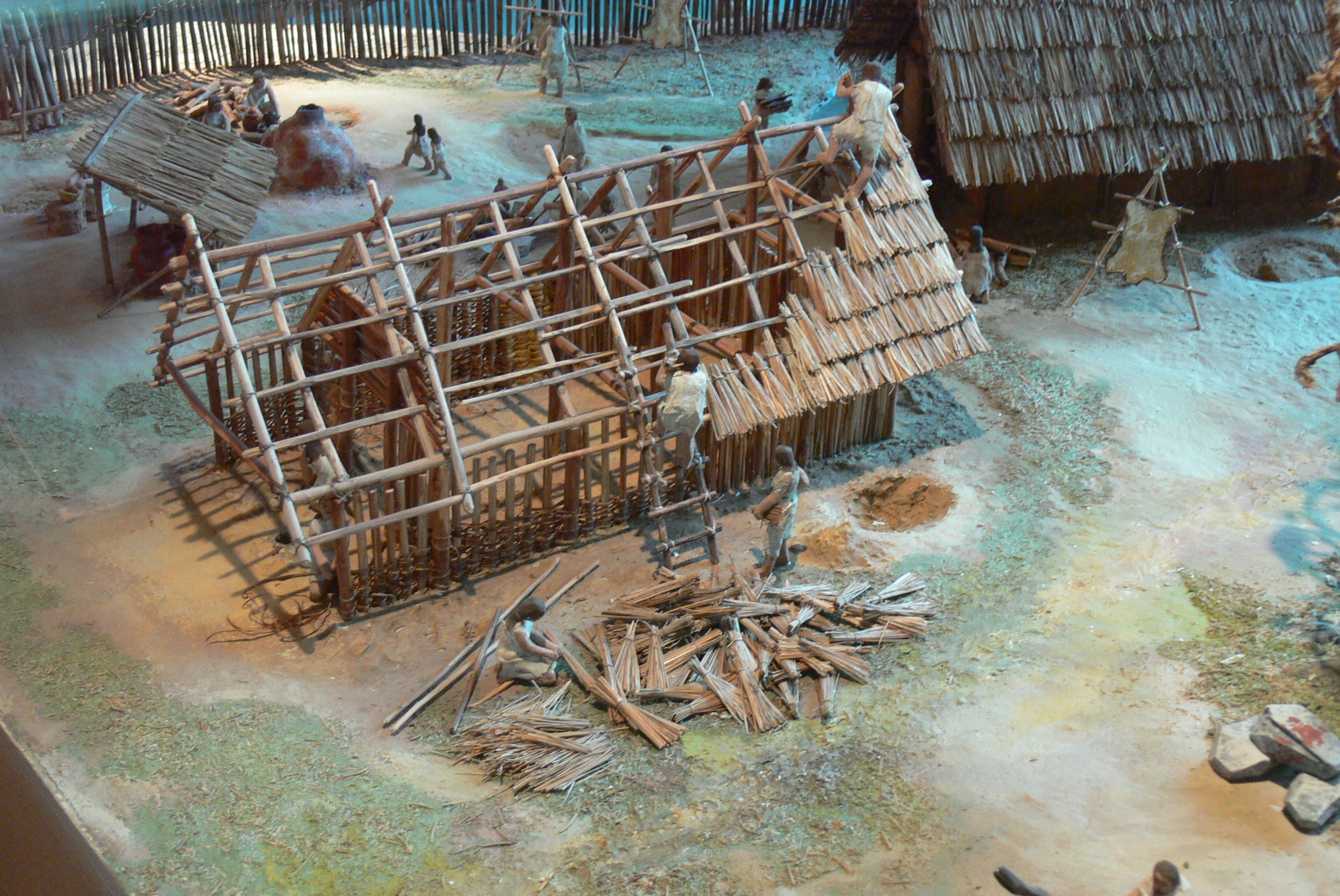 Wels ( Upper Austria ). City Museum - Minoritenkloster: Model of a neolithic village.